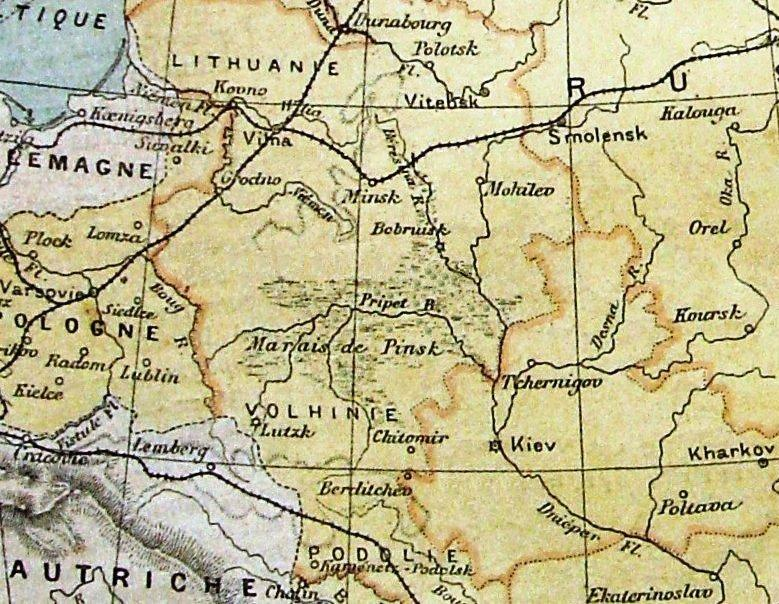 The Pinsk Marshes - Section of the map La Russie d'Europe from La Deuxième Année de géographie, Librairie Classique Armand Colin et Cie. 1888